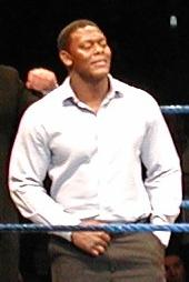 The Cabinet: Orlando Jordan and WWE Champion John "Bradshaw' Layfield. Allstate Arena, January 6en:2005.